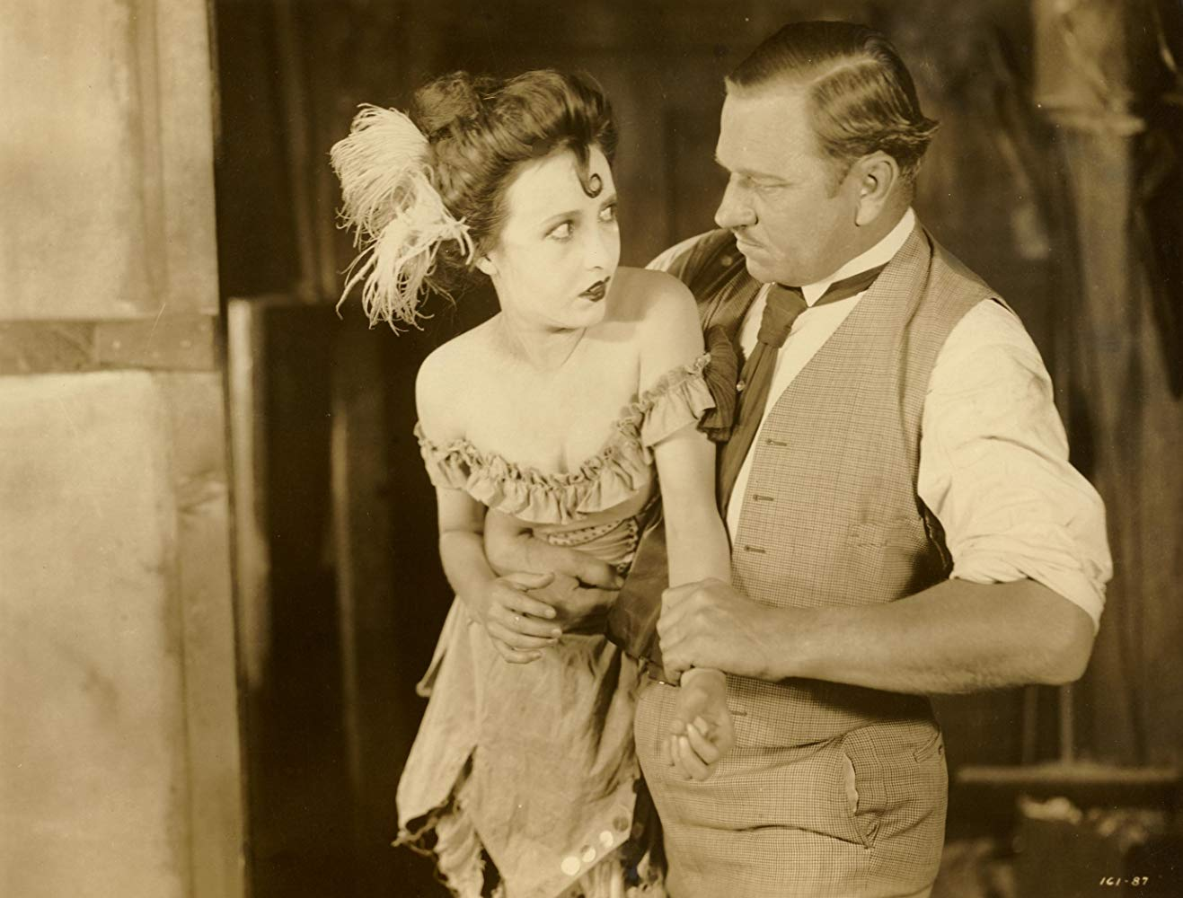 Bessie Love and Wallace Beery in scene from the American film Dynamite Smith (1924).